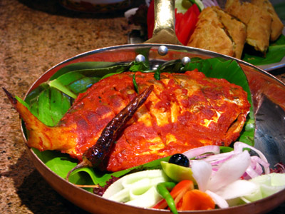 Kerala Food